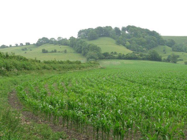 View over crop towards Kings Play Hill. King's Play Hill is the site for three long barrows. Sadly, none are visible on this image as they are hidden behind the trees.